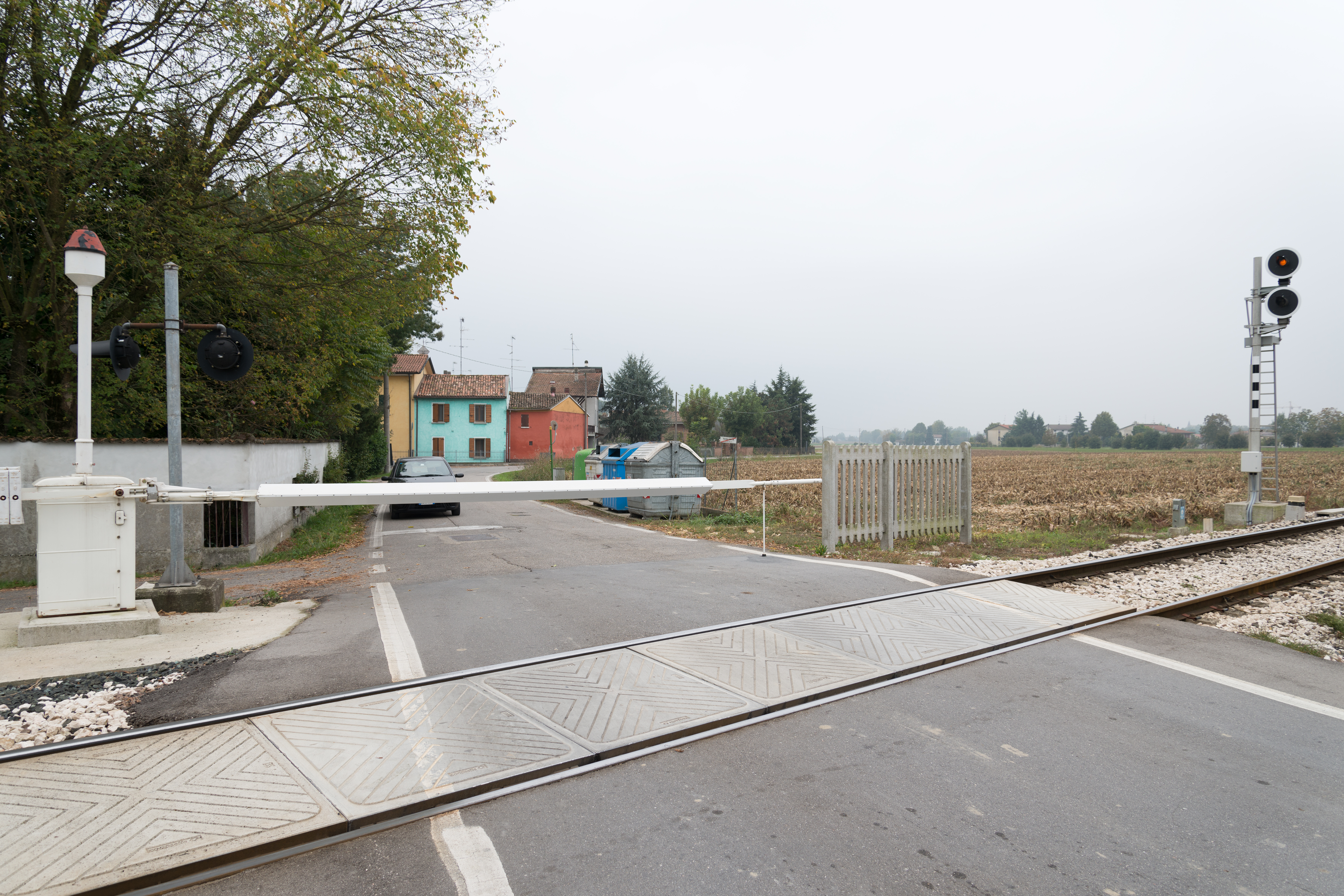 Railway Crossing - Tagliata, Guastalla, Reggio Emilia, Italy